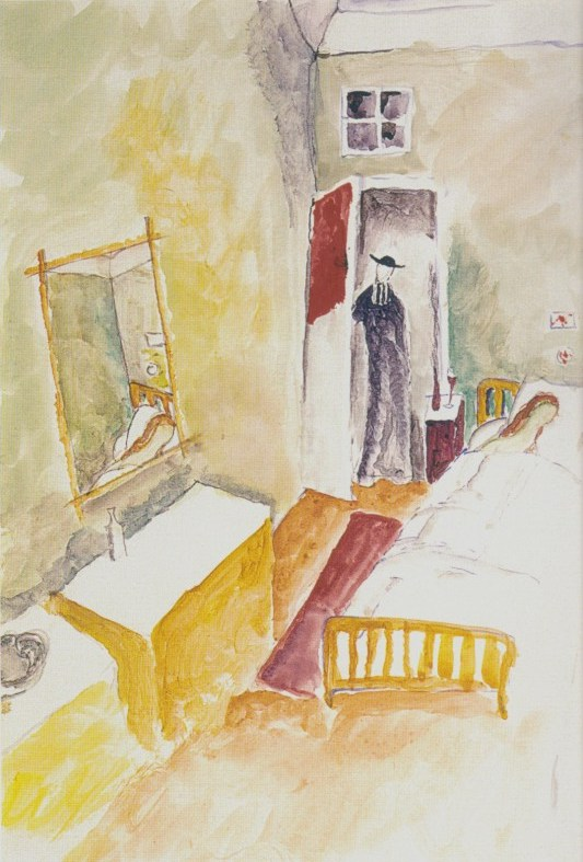 Death